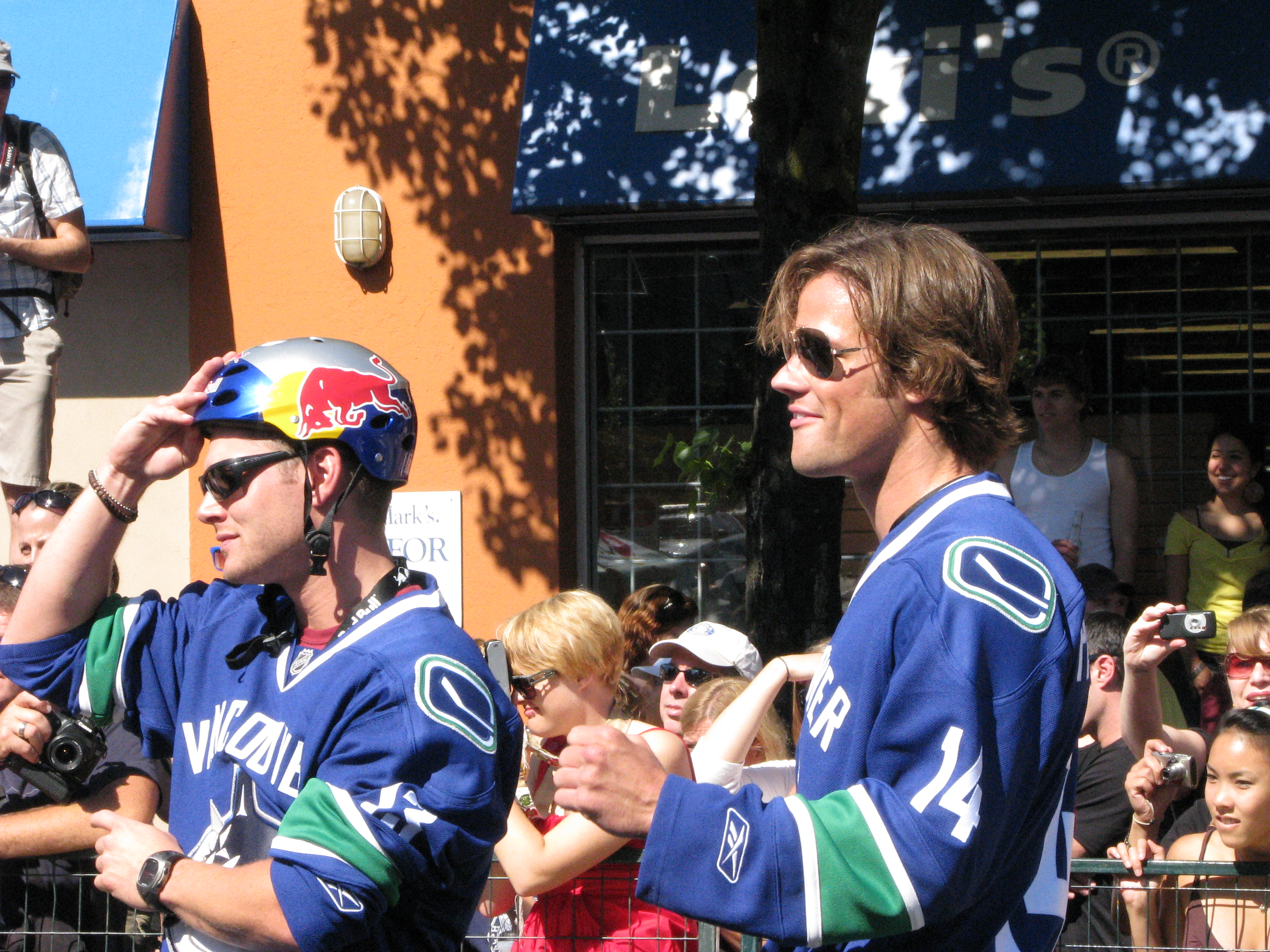 Jensen Ackles and Jared Padalecki at the 2008 Red Bull Soapbox Race